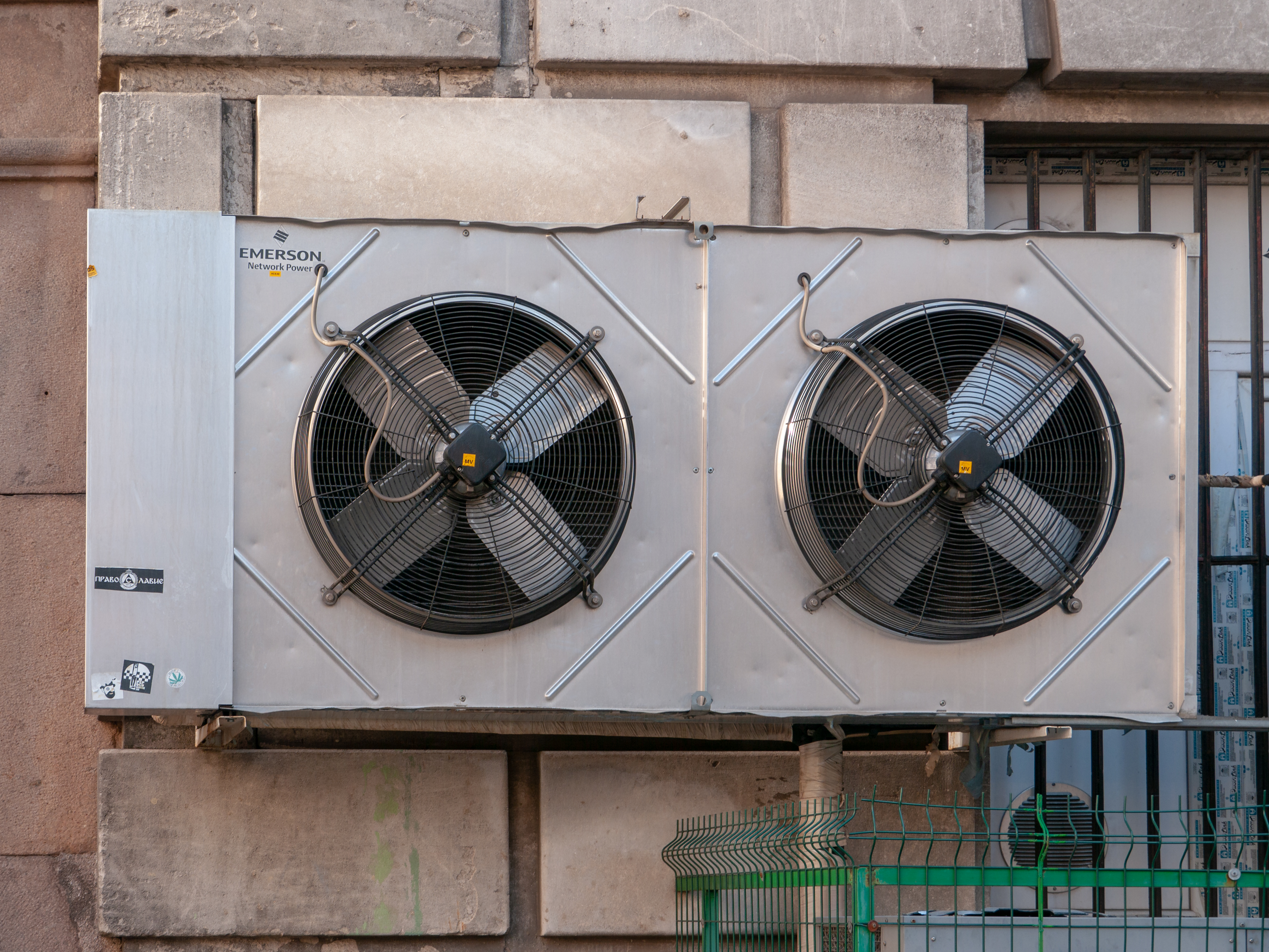 Air condition